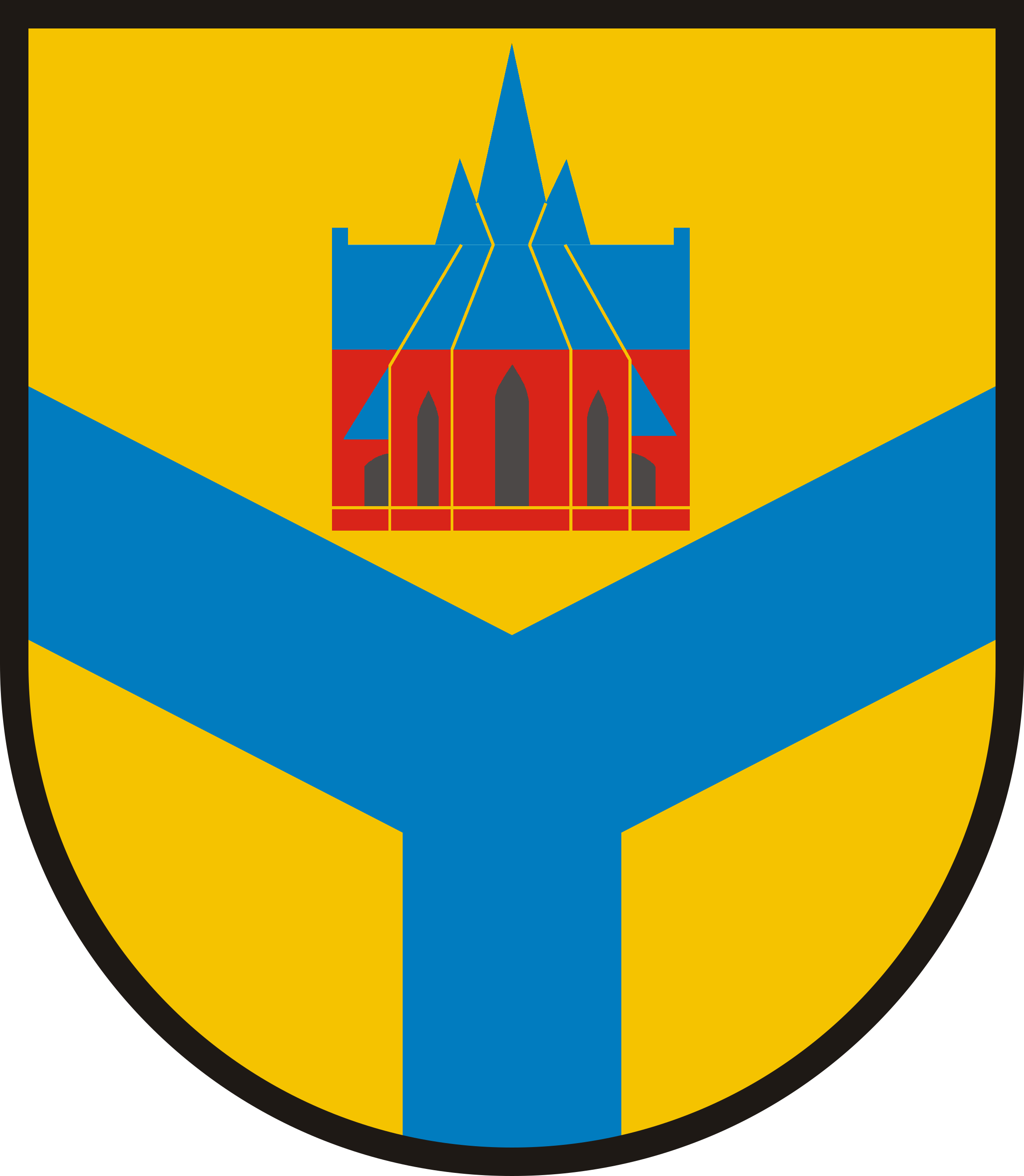 Coat of Arms of Halle